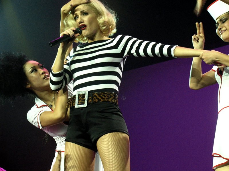 Gwen Stefani performing "Serious" in Duluth, Georgia, United Statesis she ok?